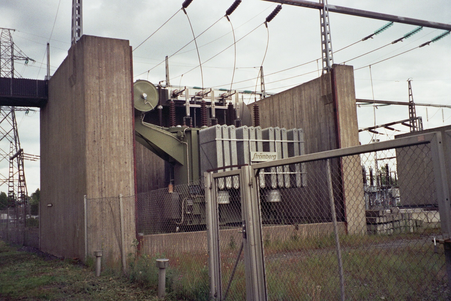 Some of the systems of the peat-fired power plant in Toppila, Oulu, Finland.